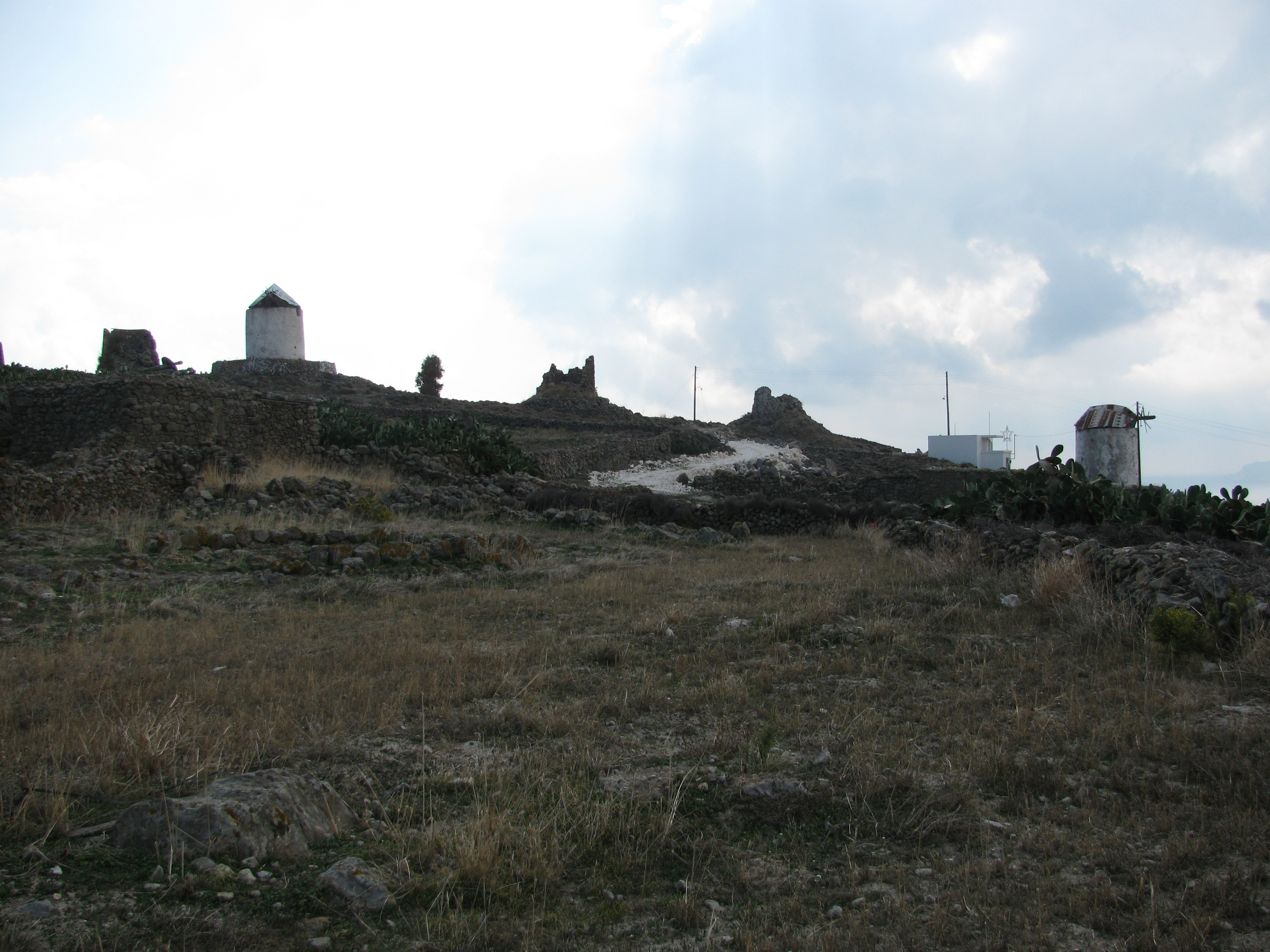 Windmills on Kimolos, October 2008